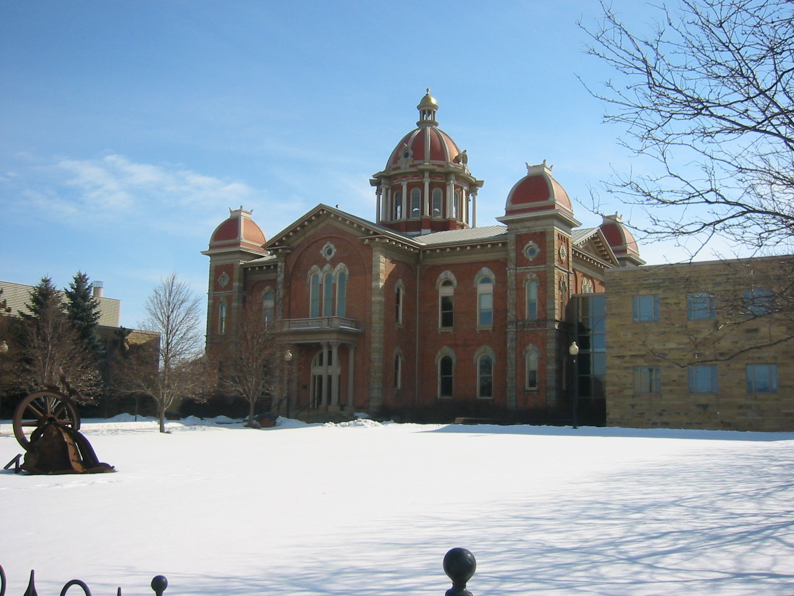 The Dakota County Courthouse (Minnesota) in Hastings, Minnesota.